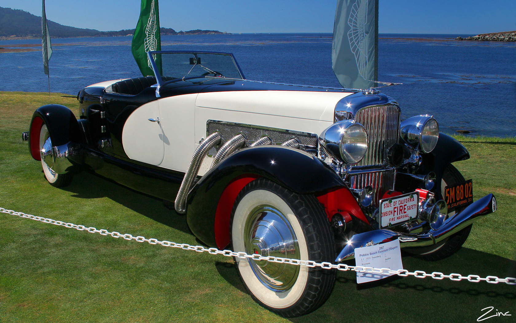 1933 Duesenberg J supercharged Boattail Speedster; Design Gordon Buehrig, built at the Weymann-American Body Company shop This photo was taken on August 19, 2007 in Pebble Beach, California, US.